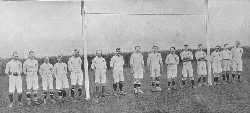 The England national rugby union team photographed at Crystal Palace.